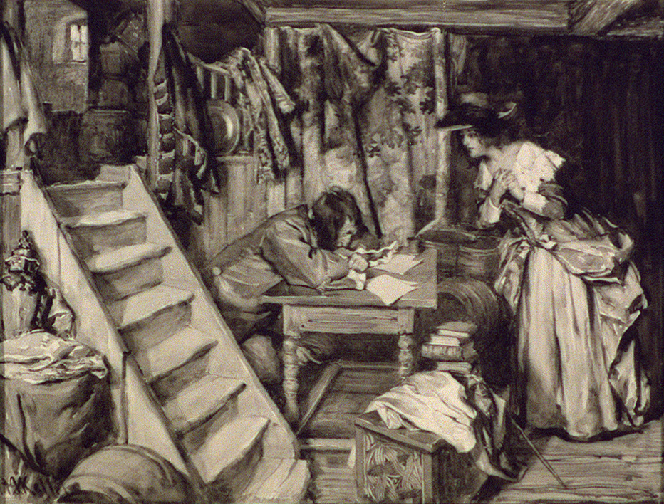 Never my dear Stede Bonnet, did I dream you would see me in such plight: this was published in Frank R. Stockton (1902), Kate Bonnet - The Romance of a Pirate's Daughter, New York: D. Appleton, p. 260.